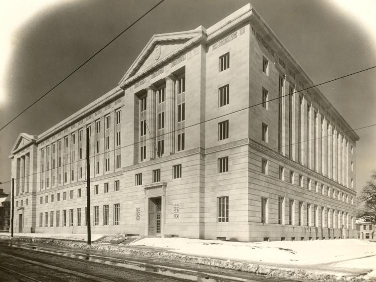 Richard Sheppard Arnold United States Courthouse, Little Rock, Arkansas (originally the U.S. Post Office and Court House); completed in 1932. Supervising Architect: James A. Wetmore Still in use by the U.S. District Court for the Eastern District of Arkansas. Renamed the Richard Sheppard Arnold United States Post Office and Courthouse in 2003.